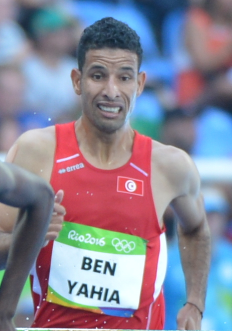 Sgt. Hillary Bor, a Soldier in the U.S. Army World Class Athlete Program stationed at Fort Carson, Colo., runs to an eighth-place finish in the men's 3,000-meter steeplechase with a personal-best time of 8 minutes, 22.74 seconds on Aug. 17 at the 2016 Rio Olympic Games in Rio de Janeiro. Brimin Kiprop Kipruto of Kenya won the race in an Olympic record time of 8:03.28, followed by silver medalist Evan Jager (8:04.28) of Team USA and bronze medalist Ezekiel Kemboi (8:08.47) of Kenya. U.S. Army photo by Tim Hipps, IMCOM Public Affairs #SoldierOlympians #ArmyOlympians #ArmyTeam #GoArmy #TeamUSA #ArmyStrong #RoadToRio